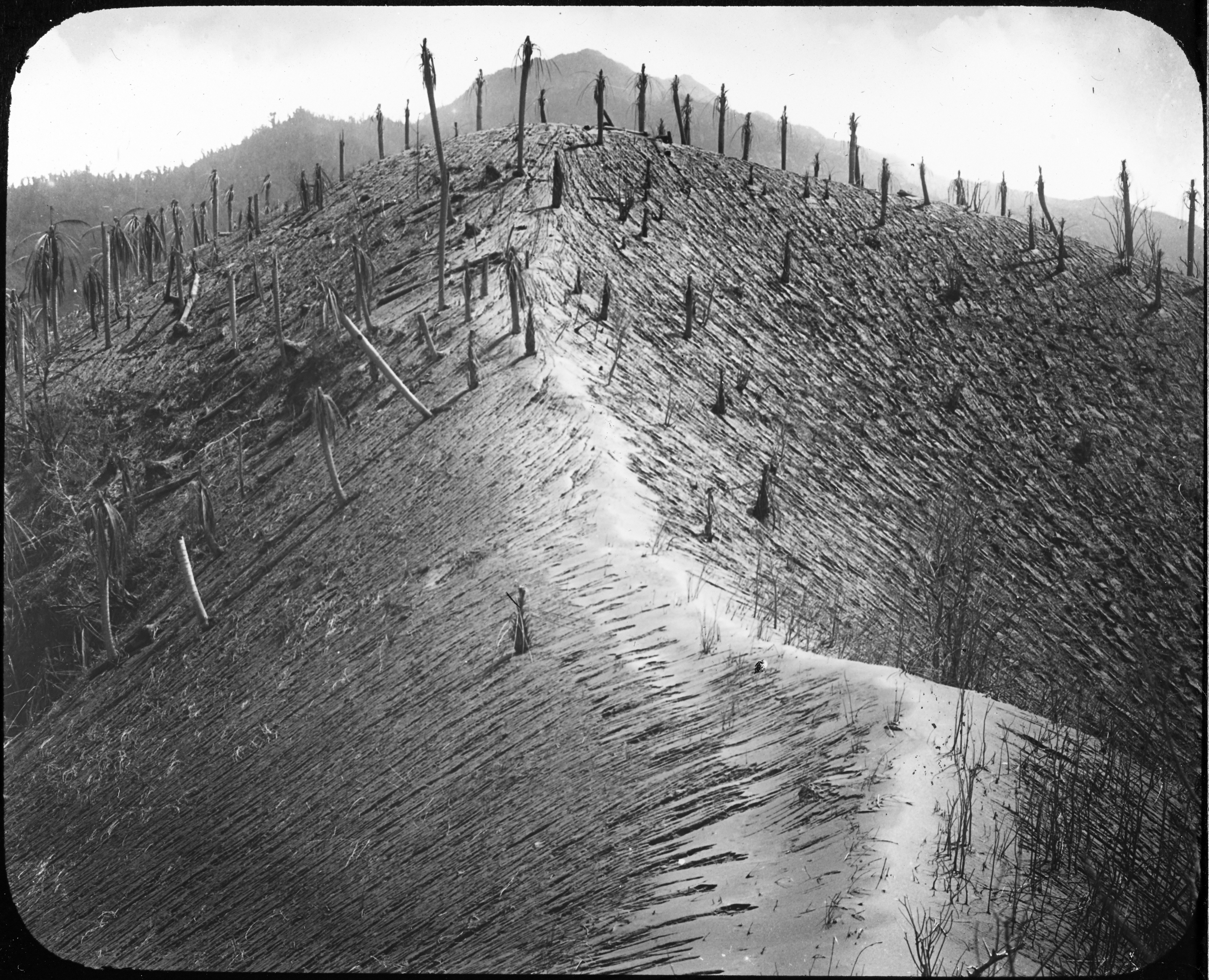 Dust covered ridge with tree stumps protruding. The palm trees have been devastated by hot pyroclastic flows from Soufriere Volcano. Gully erosion of ash.